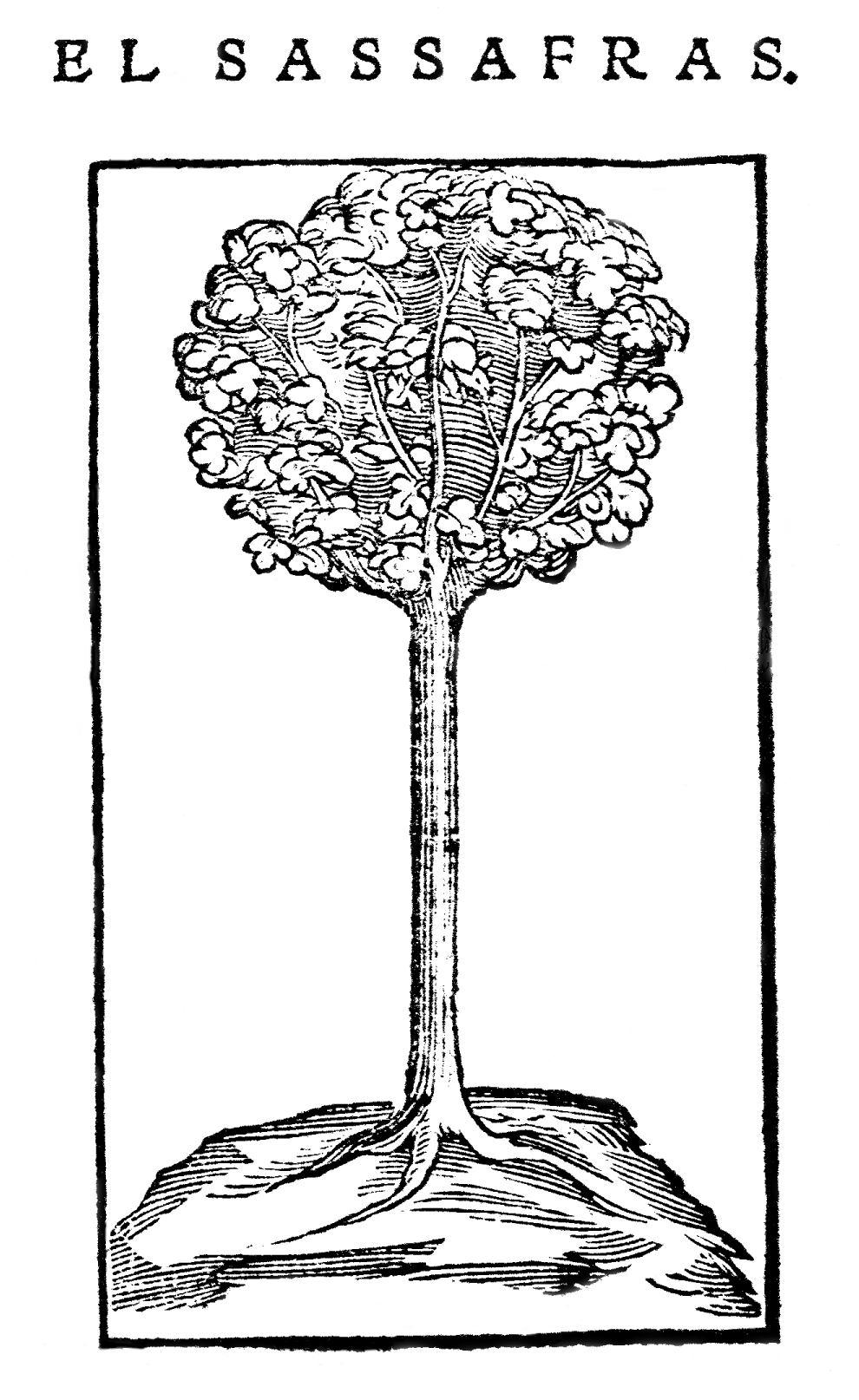 Probably the first illustration of Sassafras albidum.